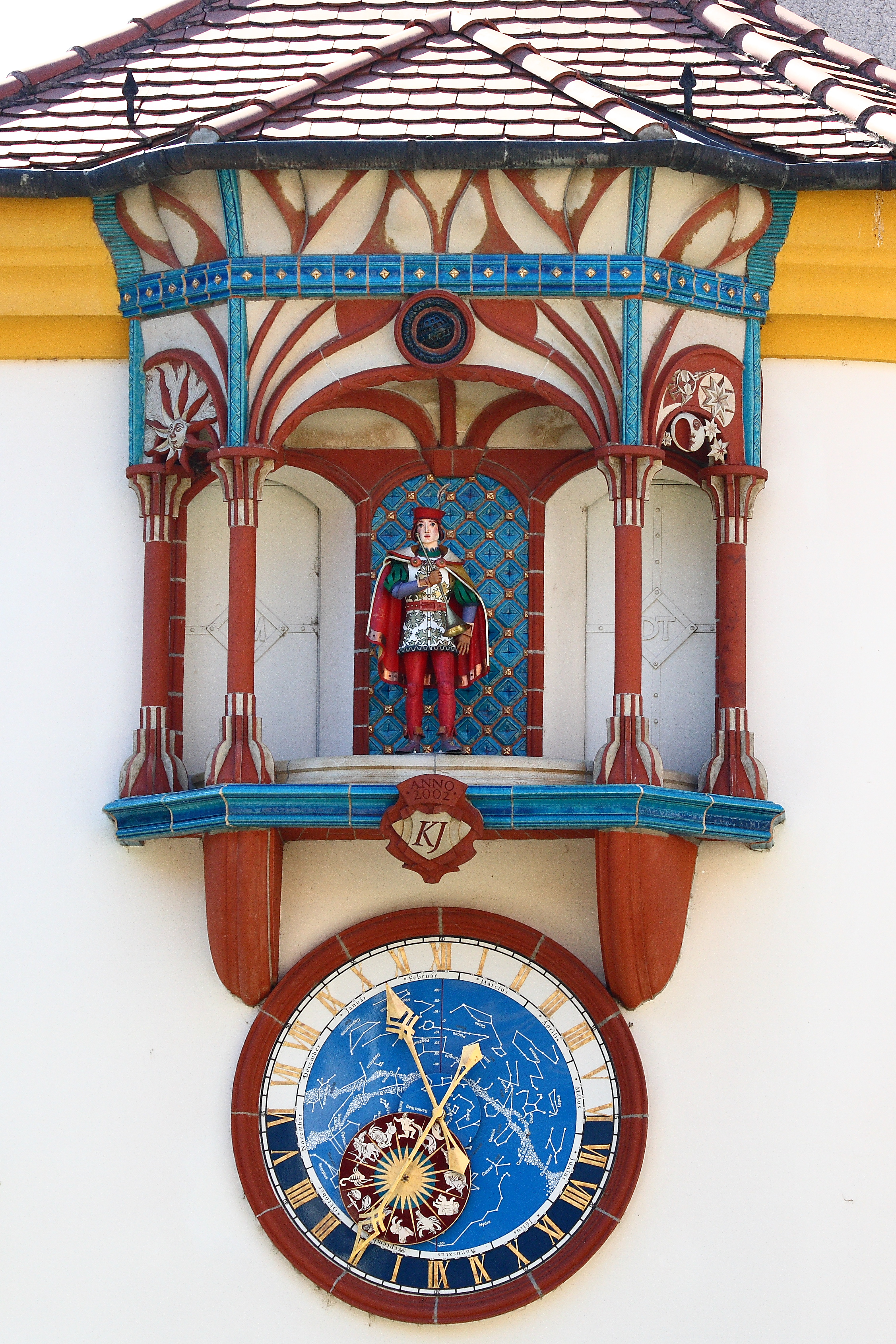 Historical Facade Clock by Jenő Kovács, Mária Ecsedi, Péter Korompai and Tibor Diós (2002) in the downtown of Székesfehérvár